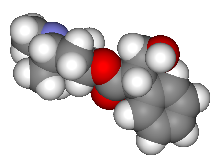 Spacefilling model of atropine. Created using Accelrys DS Visualizer Pro 1.6 and the GIMP.